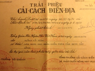 Land Reformation Bond